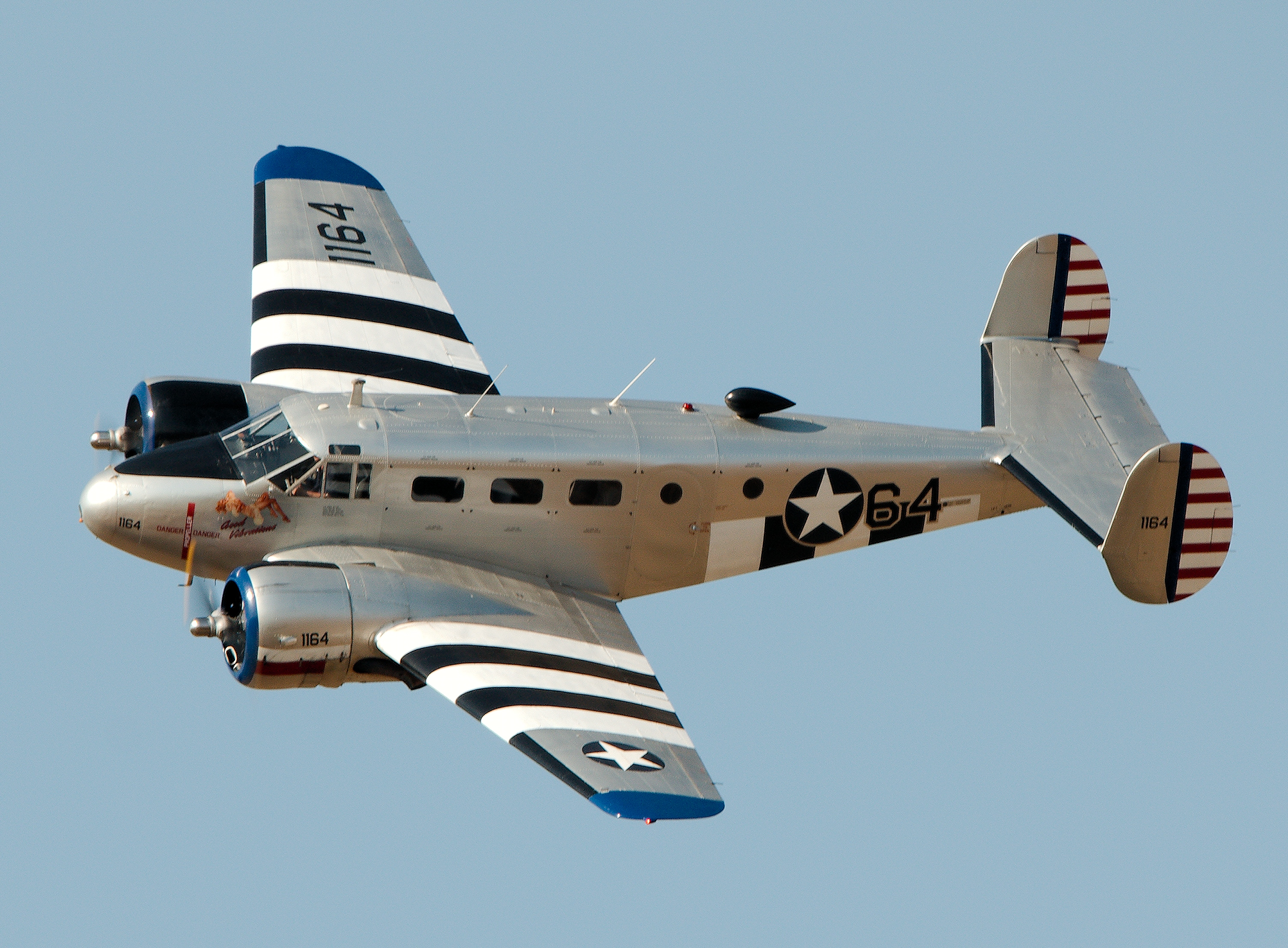 A Beech 18 at Little Gransden 2019